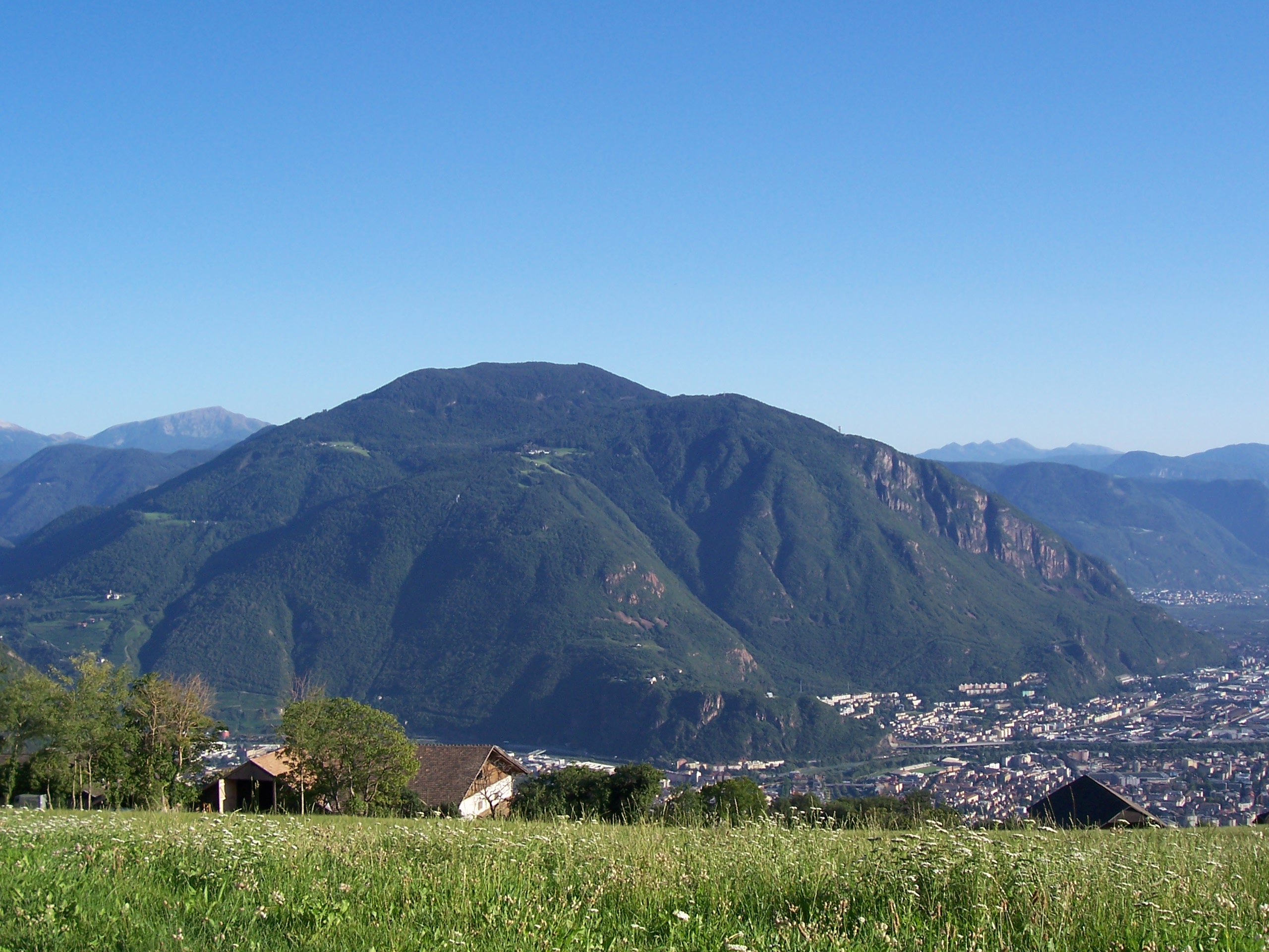 Monte Pozza-Titschen view from Jenesien (Province of Bolzano-Bozen)